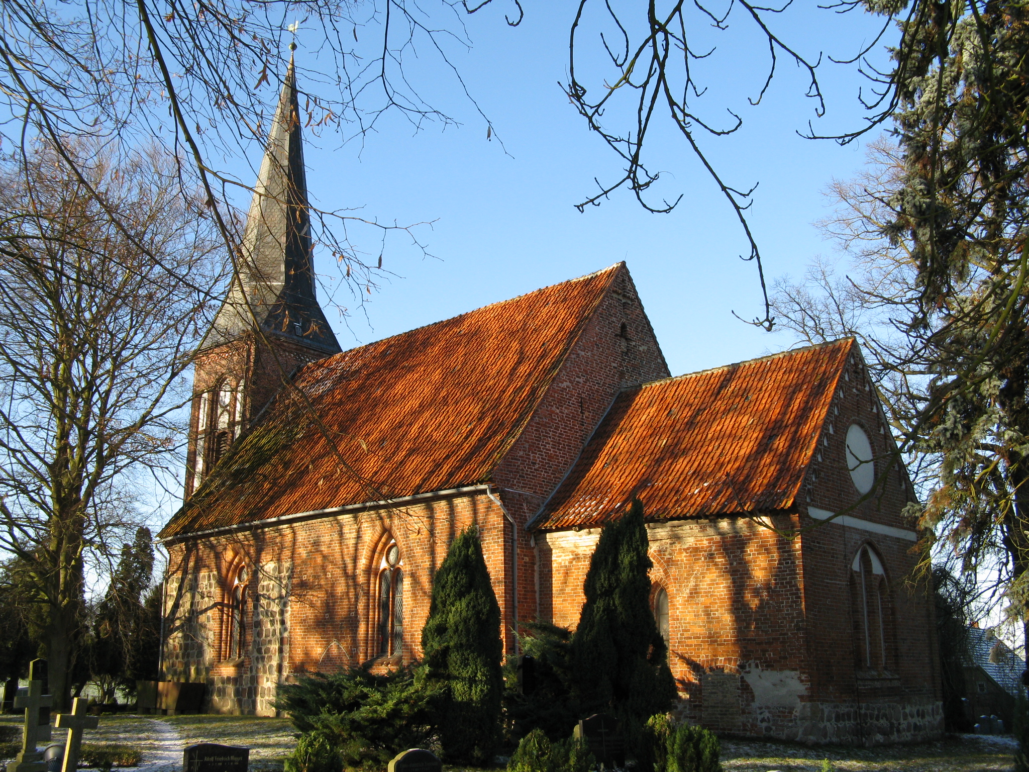 Church in Lübsee, district Nordwestmecklenburg, Mecklenburg-Vorpommern, Germany